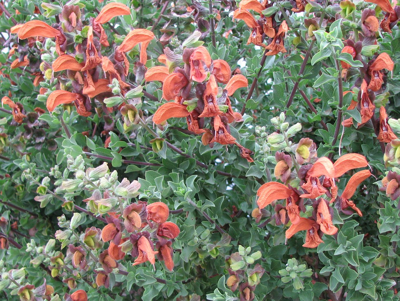 Salvia aurea (Beach salvia, Dune salvia, Golden salvia, Bruin- of sandsalie, Geelblomsalie) — native to the Cape Strandveld, South Africa. This interesting Sage has very unique coloration, and is often the starting point for an interesting color scheme. The flowers are this weird shade of rusty-orange, with purplish calyxes and celadon green-gray foliage. "Perhaps not easy matched to more 'typical' floral colors, it does go very well with other drab foliage colors as well as dusky, plummy tones, and also rusted found objects that are so popular as garden ornaments these days. Certainly an eyecatcher." For more information, see here